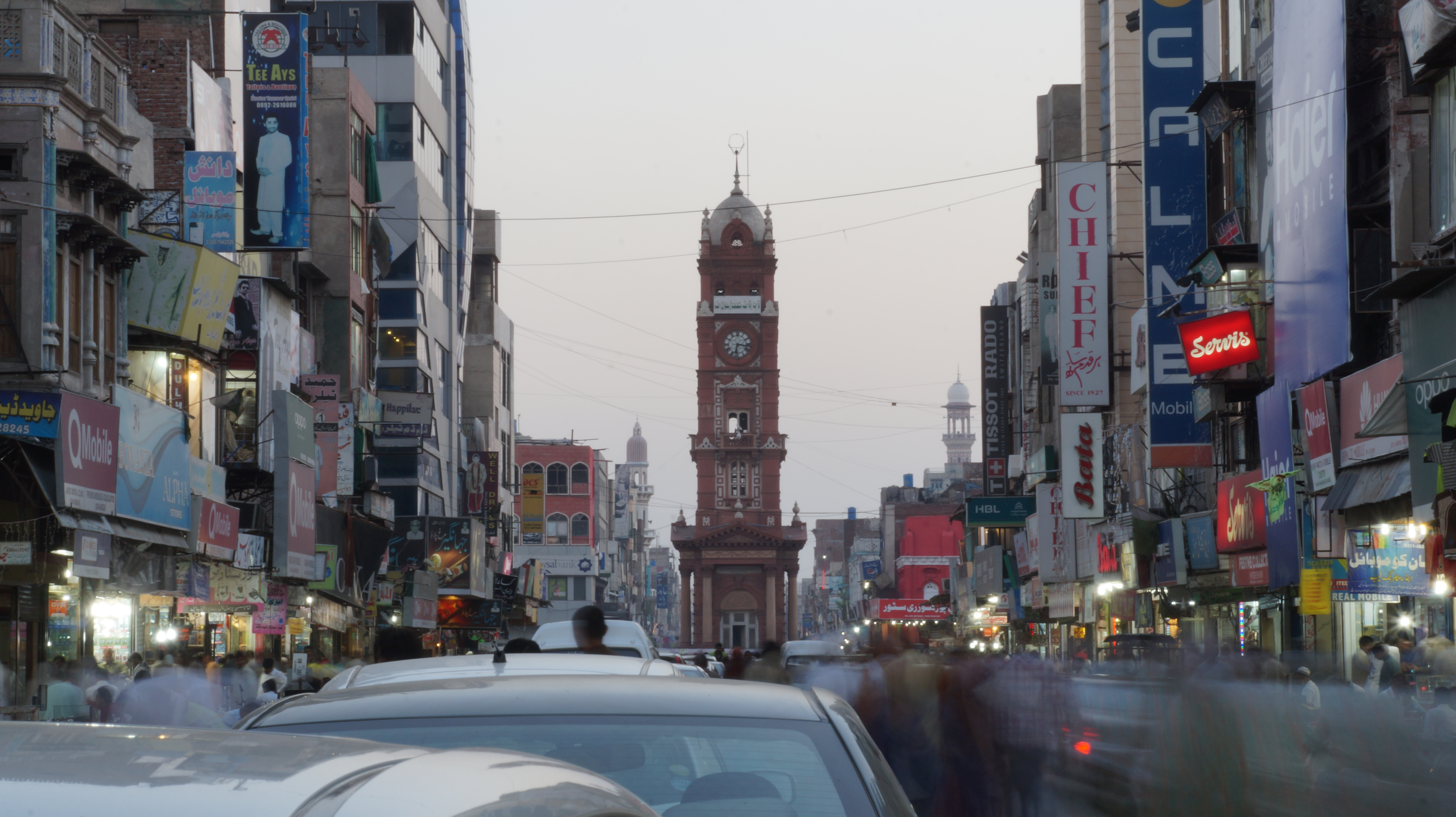 Clock Tower This is a photo of a monument in Pakistan identified as the PB-U-15